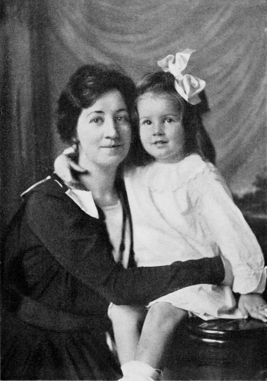 Bessie Davis (née McCoy) wife of writer Richard Harding Davis with their daughter Hope.